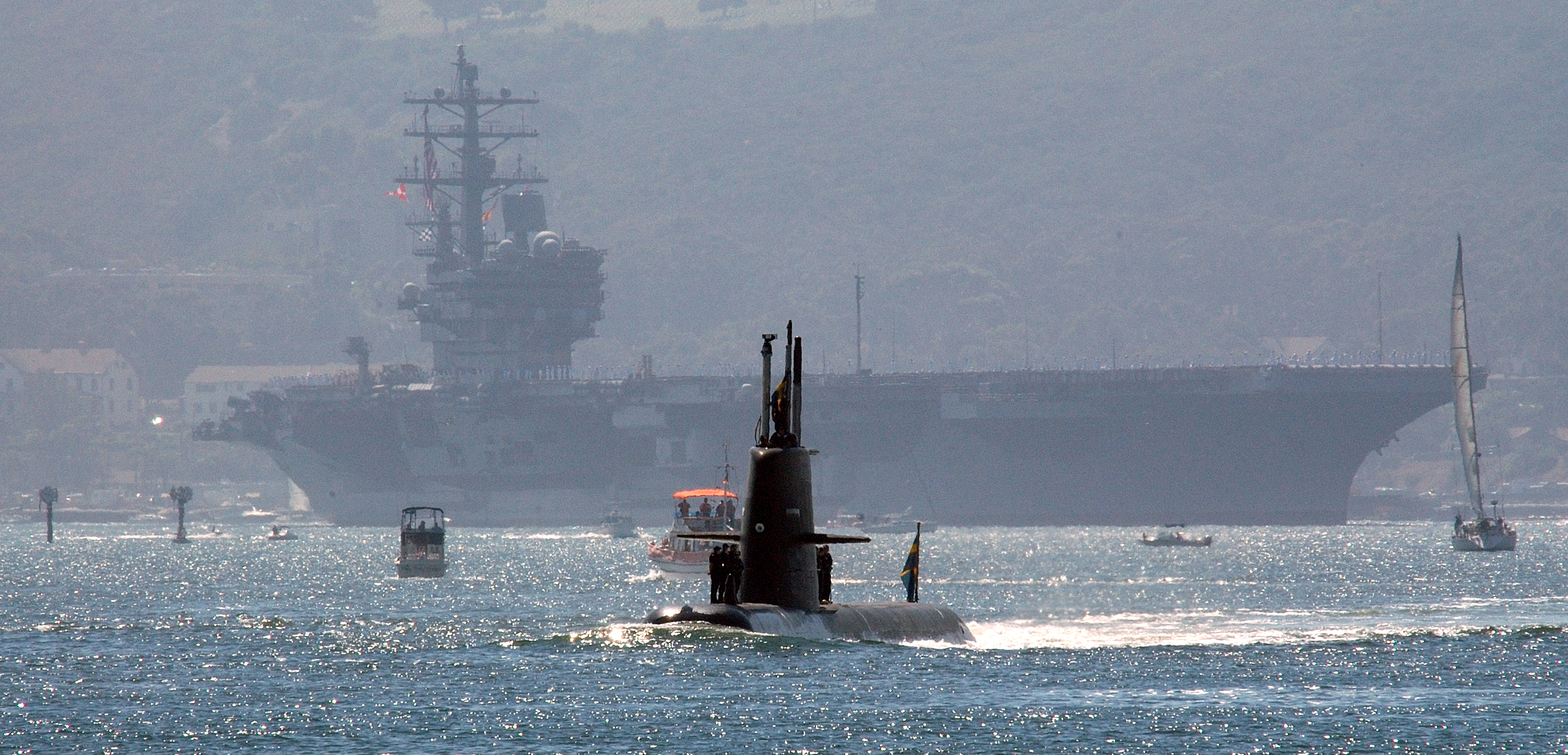 Swedish Stirling engine-powered attack submarine HMS Gotland transits through San Diego Harbor with the Nimitz-class aircraft carrier USS Ronald Reagan (CVN 76) following close behind during the “Sea and Air Parade” held as part of Fleet Week San Diego 2005. Fleet Week San Diego is a three-week tribute to Southern California-area military members and their families.